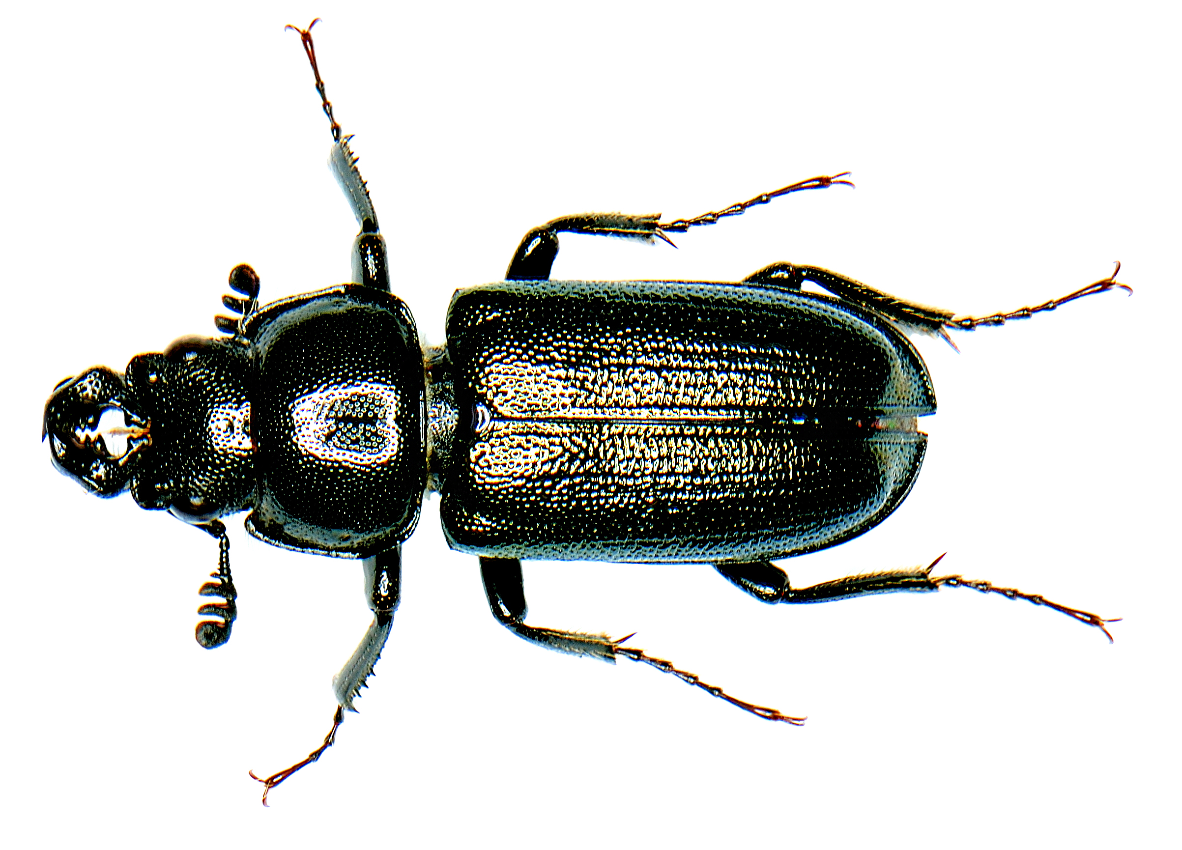 Specimen of Platycerus virescens (Fabricius), a stag beetle. This individual was collected in USA: Connecticut: Middlesex County: Killingworth, on a house window screen, 30-Apr-2011, collector M.K. Oliver, in collection of same. The length of the beetle (excluding legs) is 11 mm.